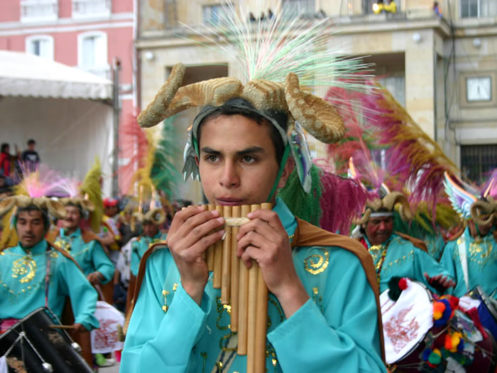 Indoamericanto panpipes player. Pasto Mother Earth parade song, January 3rd